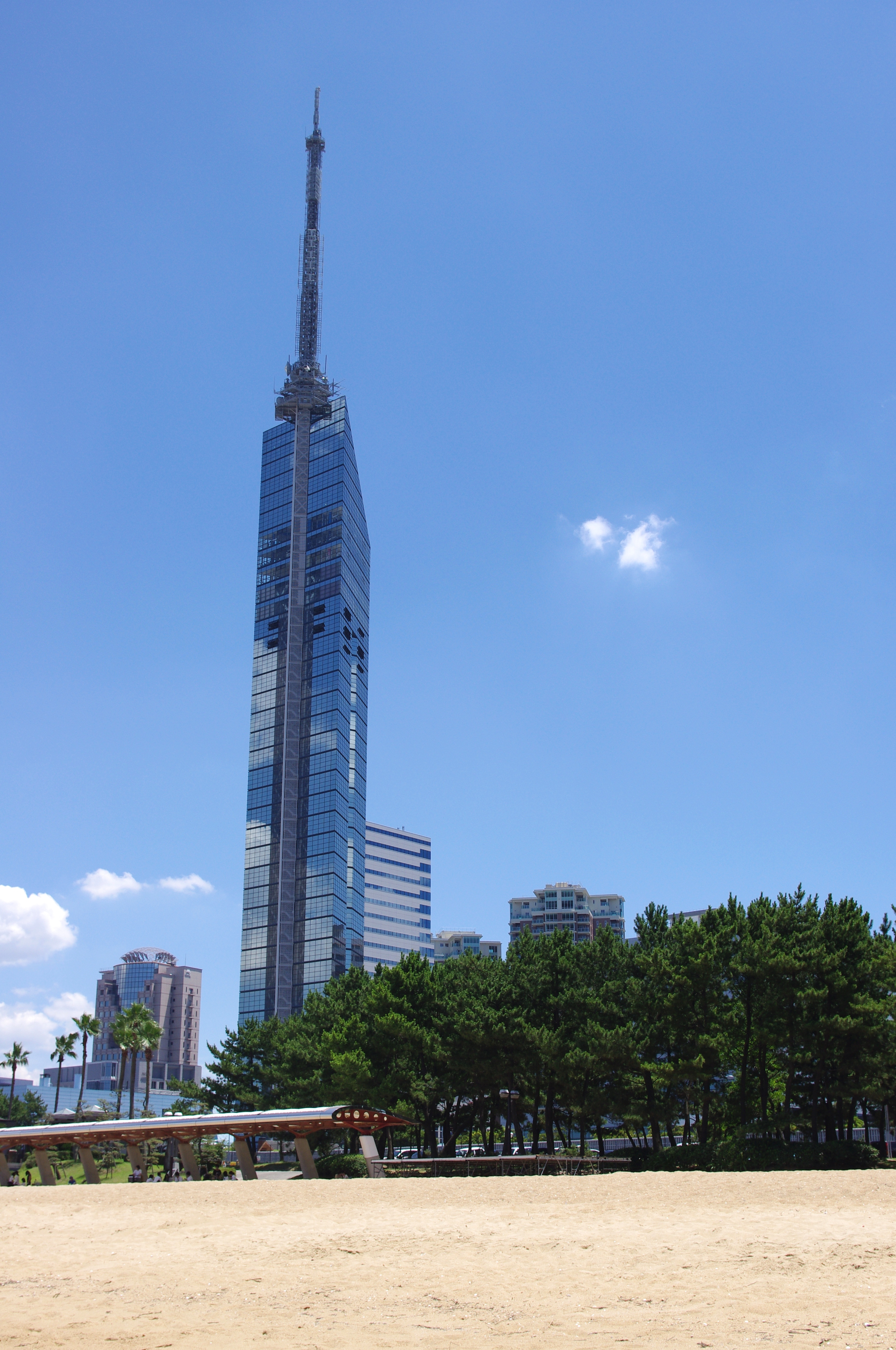 Fukuoka Tower